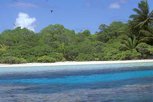 Great Frigatebirds (Fregata minor) fly over clear blue waters on Motu Mannikiba, Caroline Atoll, Line Islands, Kiribati.